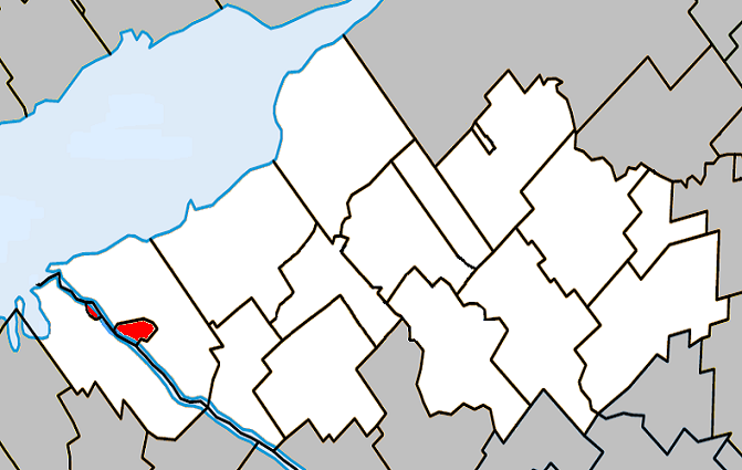 Location of Odanak, Quebec within Nicolet-Yamaska Regional County Municipality.